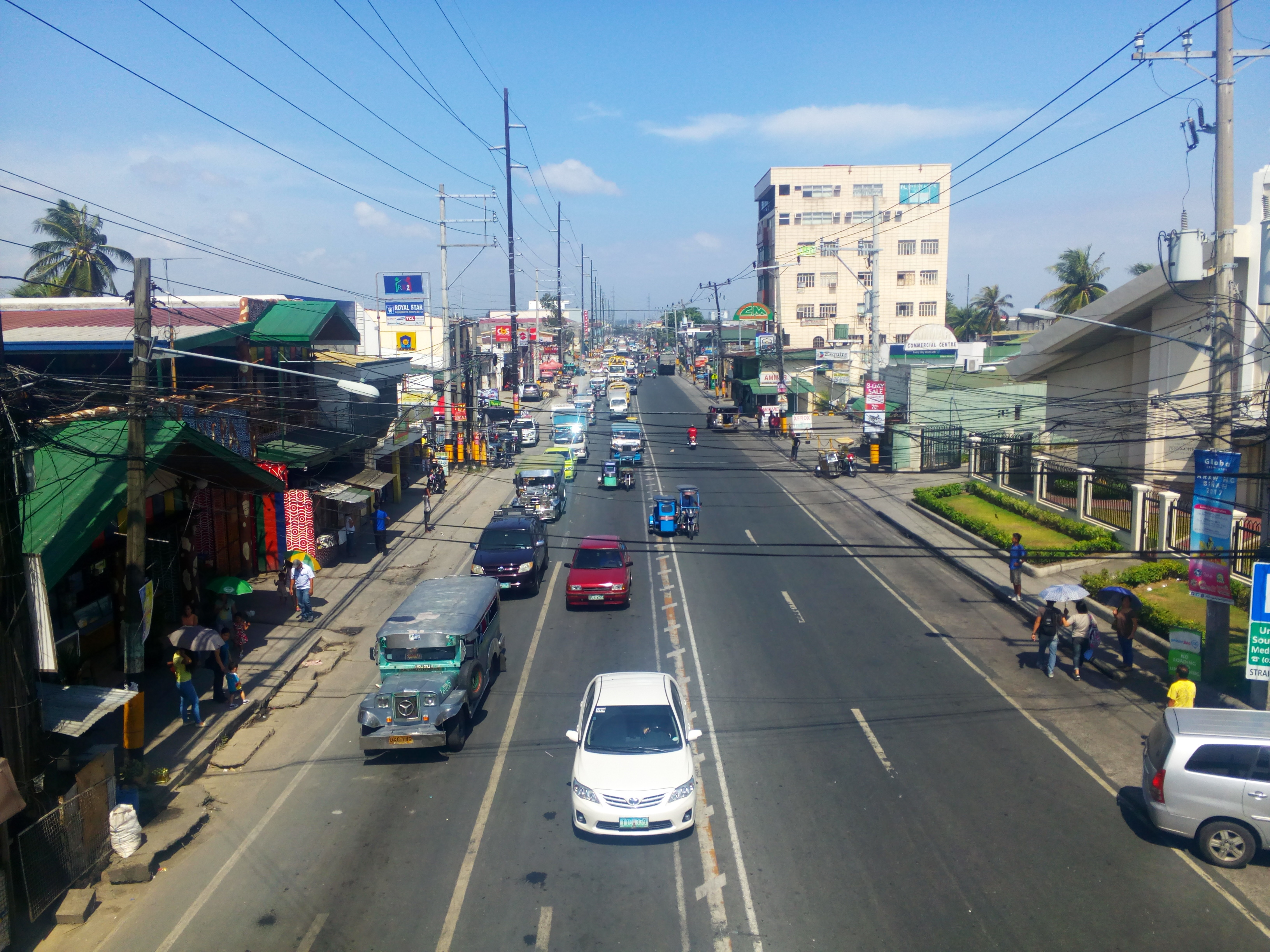 Portion of Old National Highway in Biñan City, Laguna